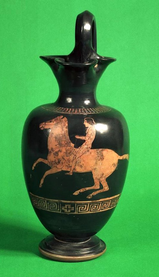 Red figure oinochoe attributed to the Hasselmann painter showing a boy riding a horse. c. 430 BC. Beazley: ARV2 1138.45. Beazley database number: 215082